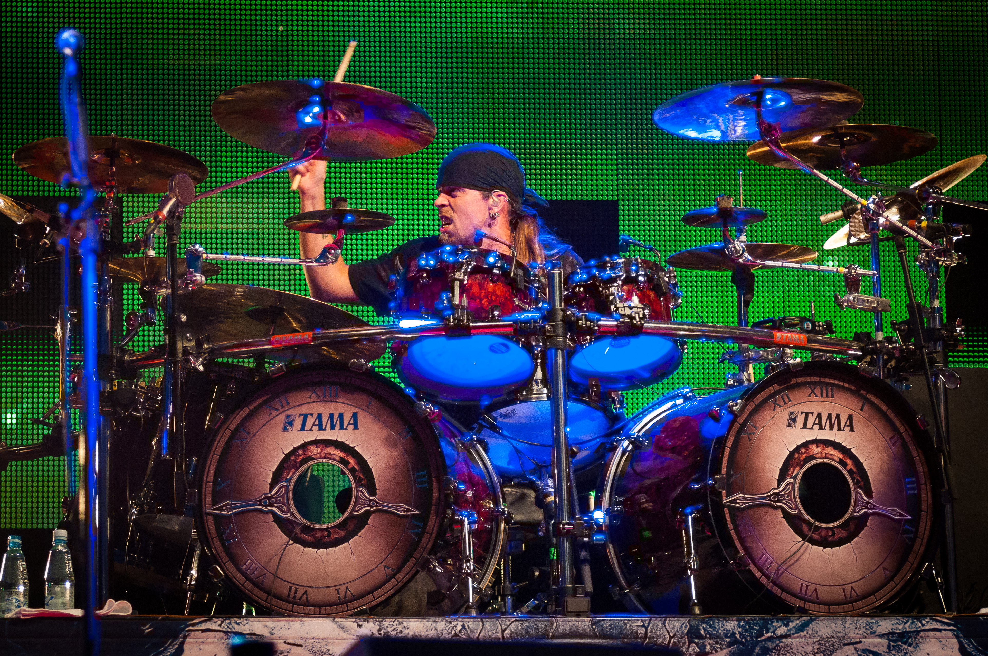 Finnish drummer Jukka Nevalainen performing with Nightwish at the 2013 Ilosaarirock festival in Joensuu, Finland.